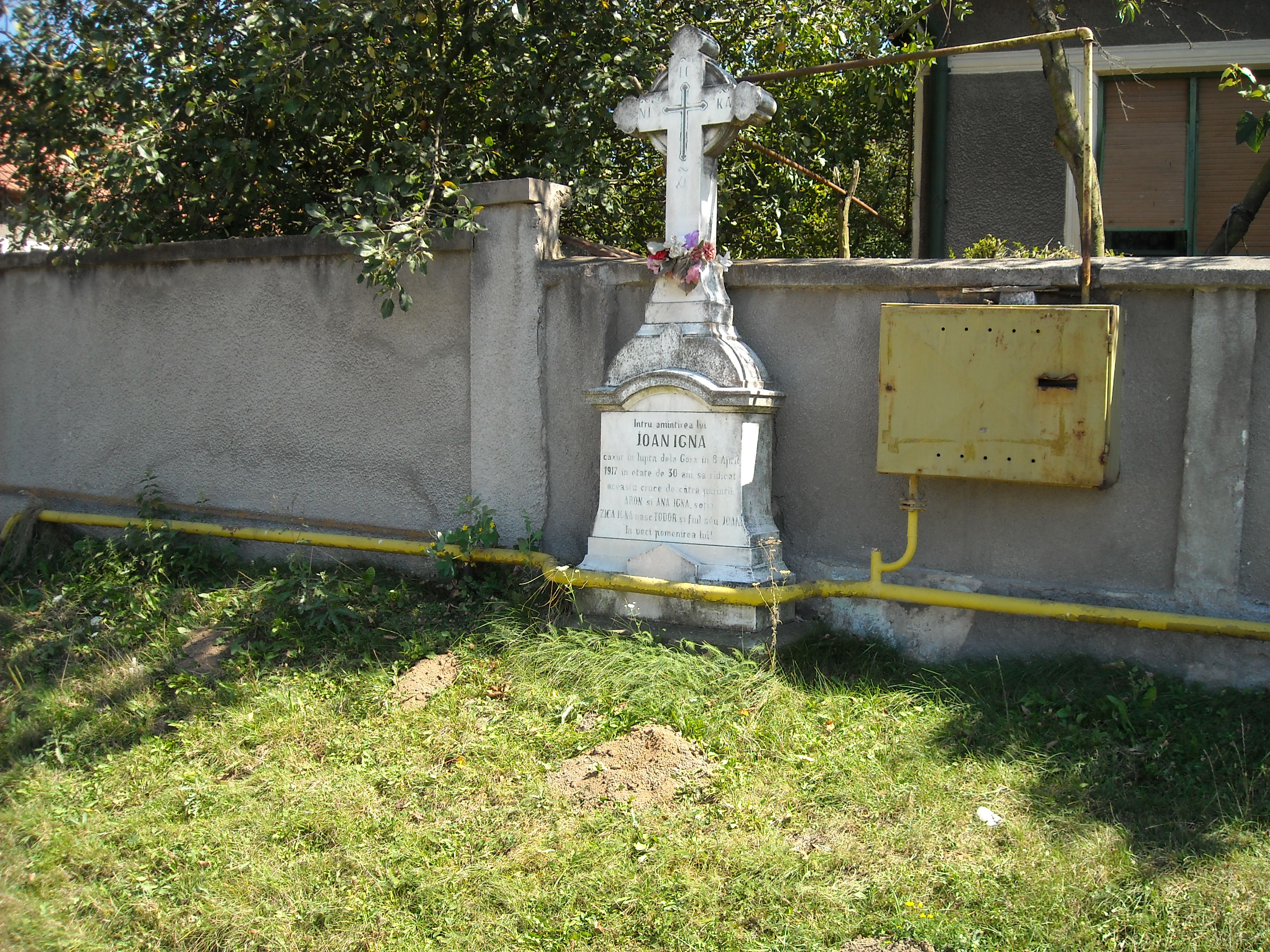 memorial cross in Simeria Veche village